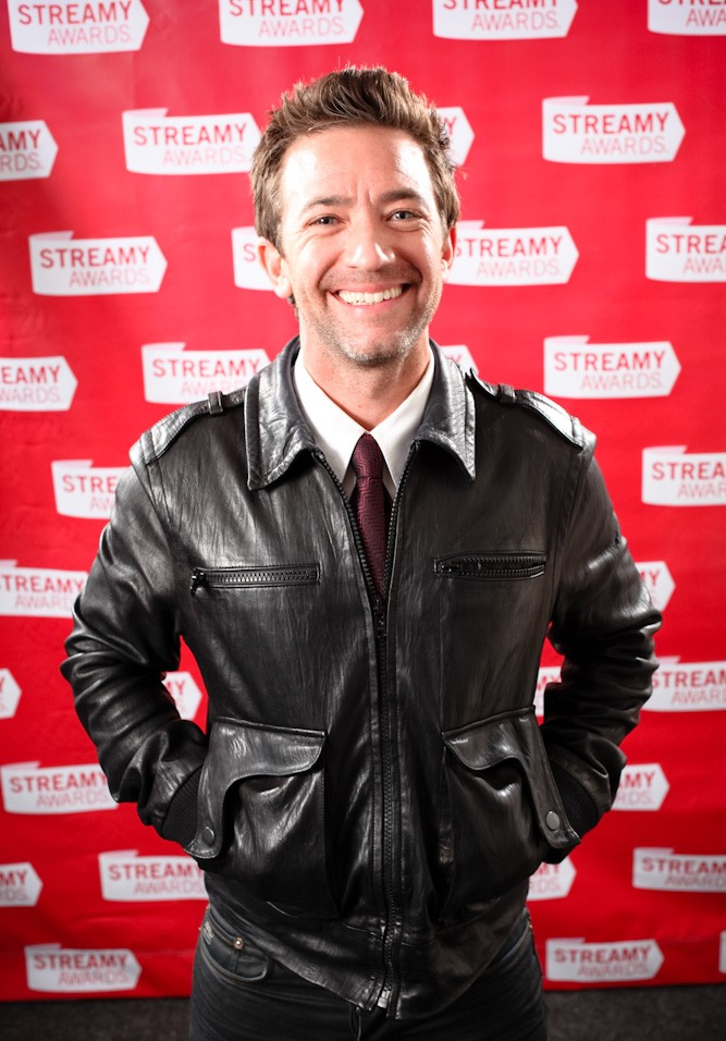 David Faustino at 2009 Streamy Awards. March 28, 2009.